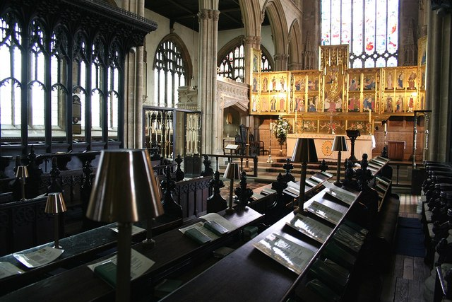 St.Mary's choir The choir stalls were given in 1521 by John Smith, vicar of Newark and in 1524 by John Foucher, a baker